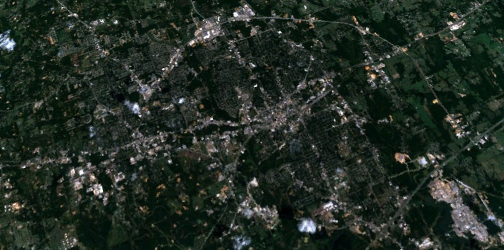 World Wind image of Longview, Texas.